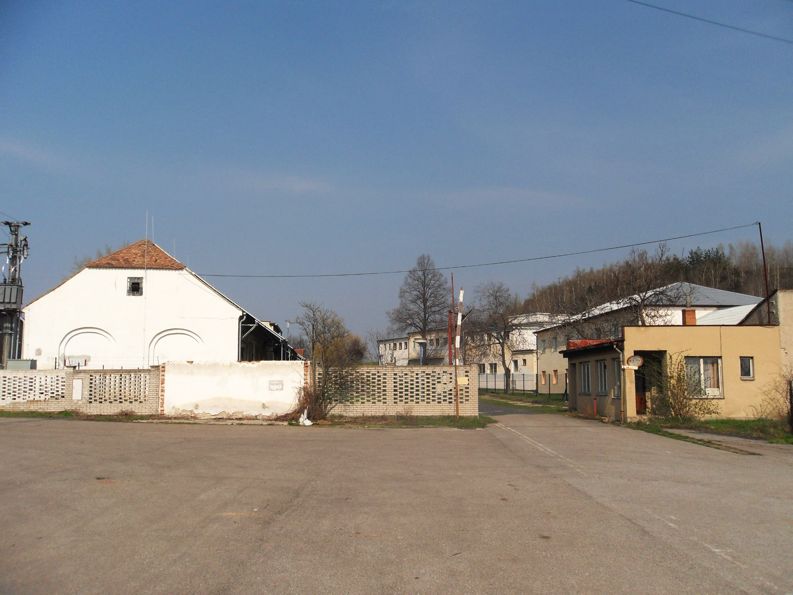 Former Antonín coal mine, Zbýšov, Brno-venkov District, Czech Republic